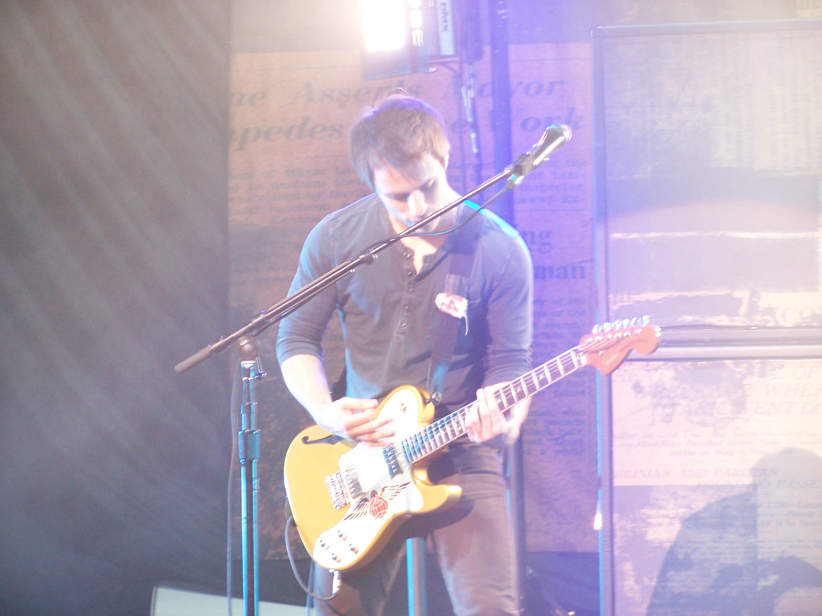 Paramore opening of the show No Doubt in General Motors Place.